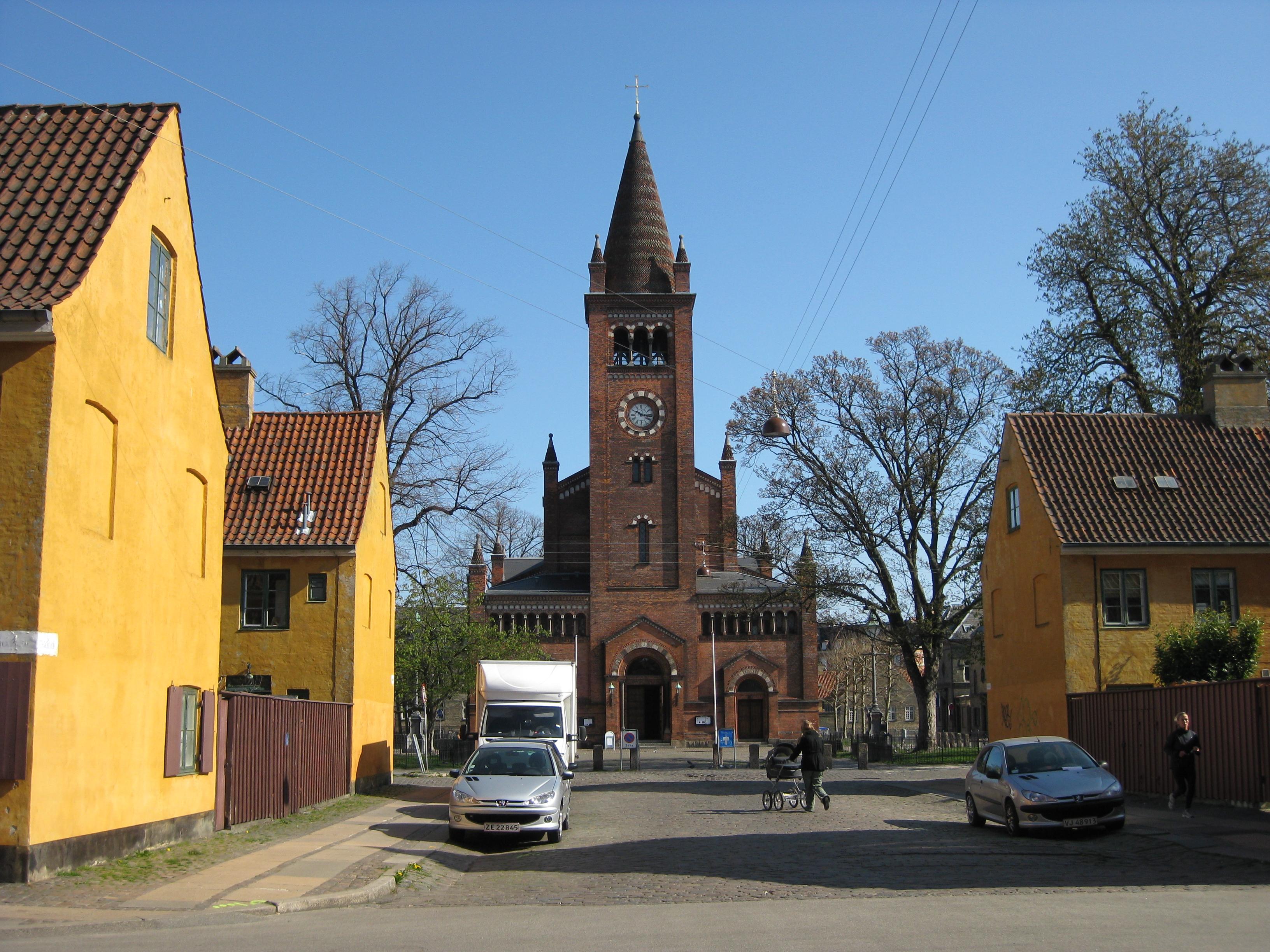 Adelgade with St. Paul's Church in Copenhagen, Denmark